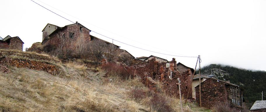 Rubió (Soriguera) town view.